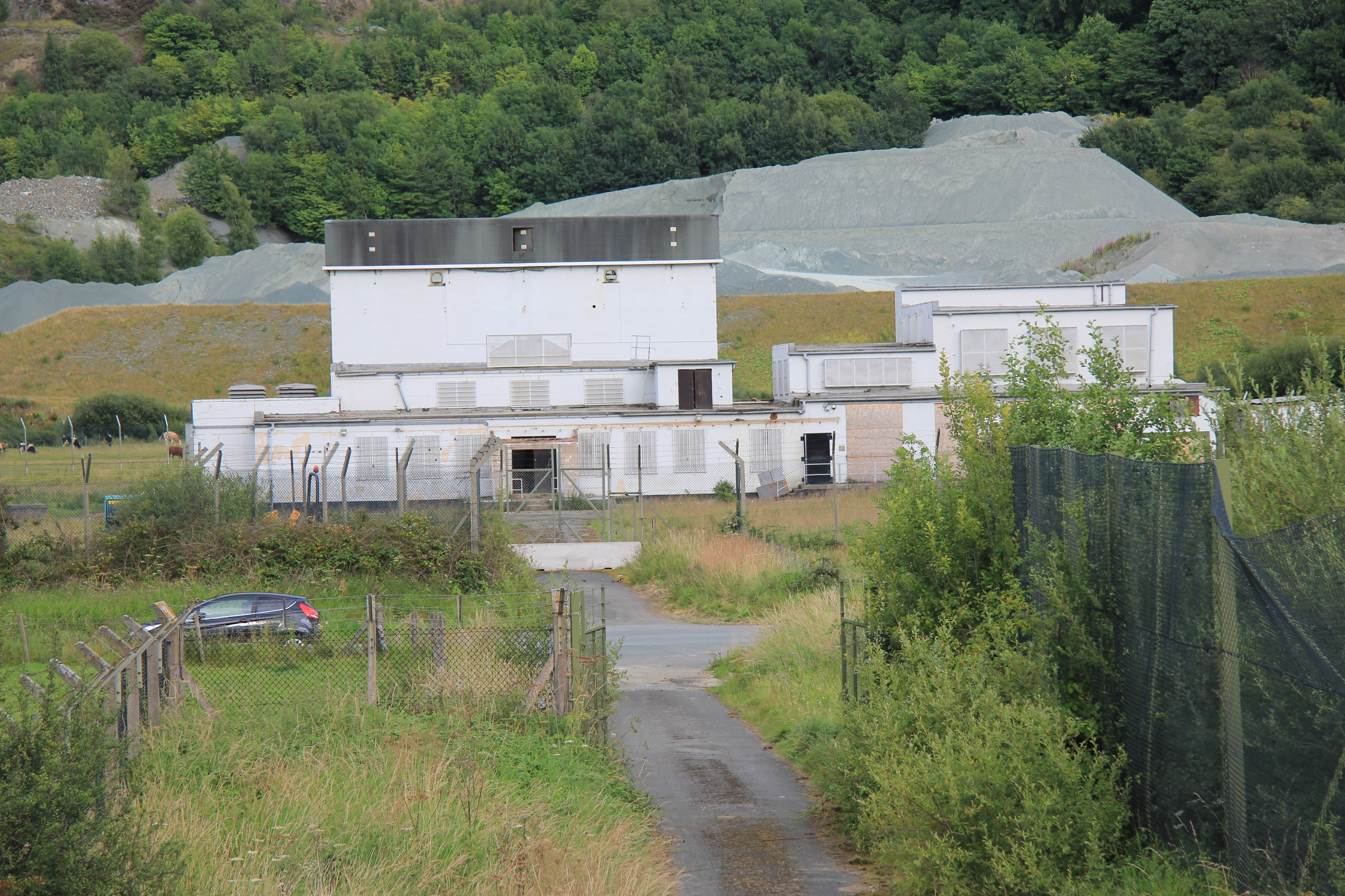 View of Criggion Radio Station